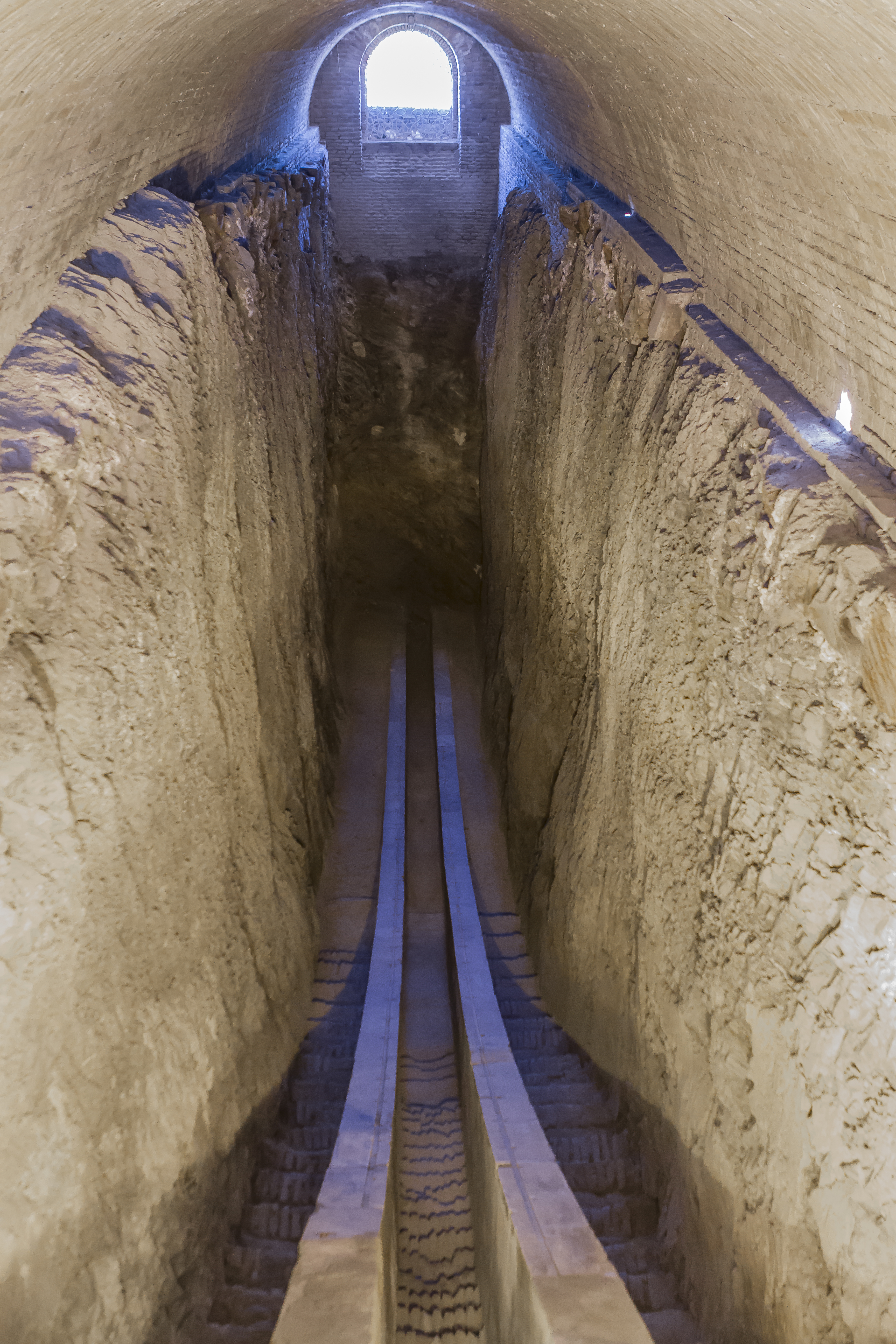 Inside the Ulugh Beg Observatory in Samarkand, Uzbekistan, built in the 1420s by the Timurid astronomer Ulugh Beg